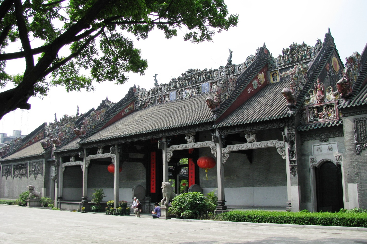 The Chen Clan's Academy in Guangzhou, China.中国广州陈家祠。